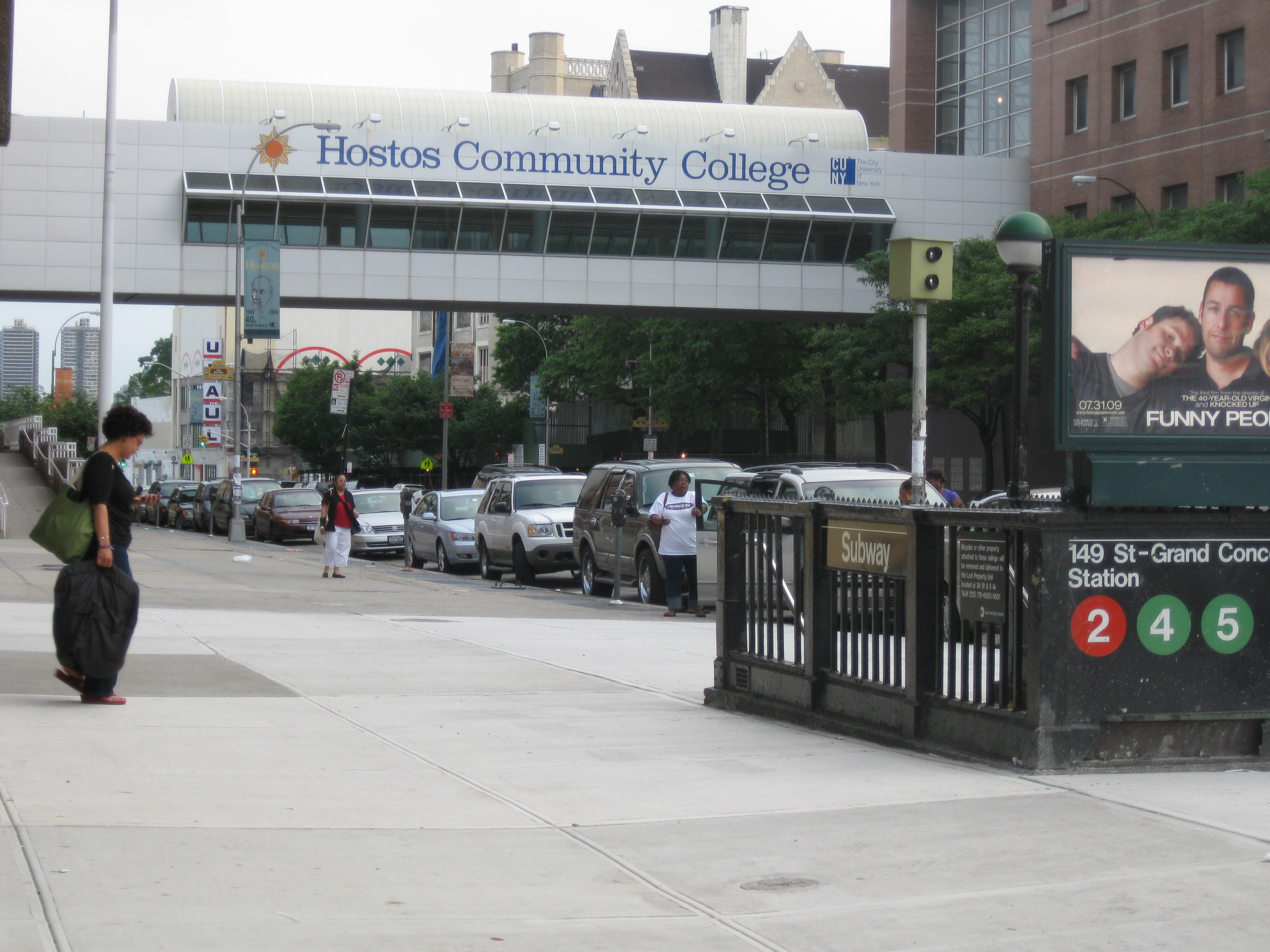 Pedestrian walkway connecting two halves of campus of Hostos Community College across Grand Concourse.